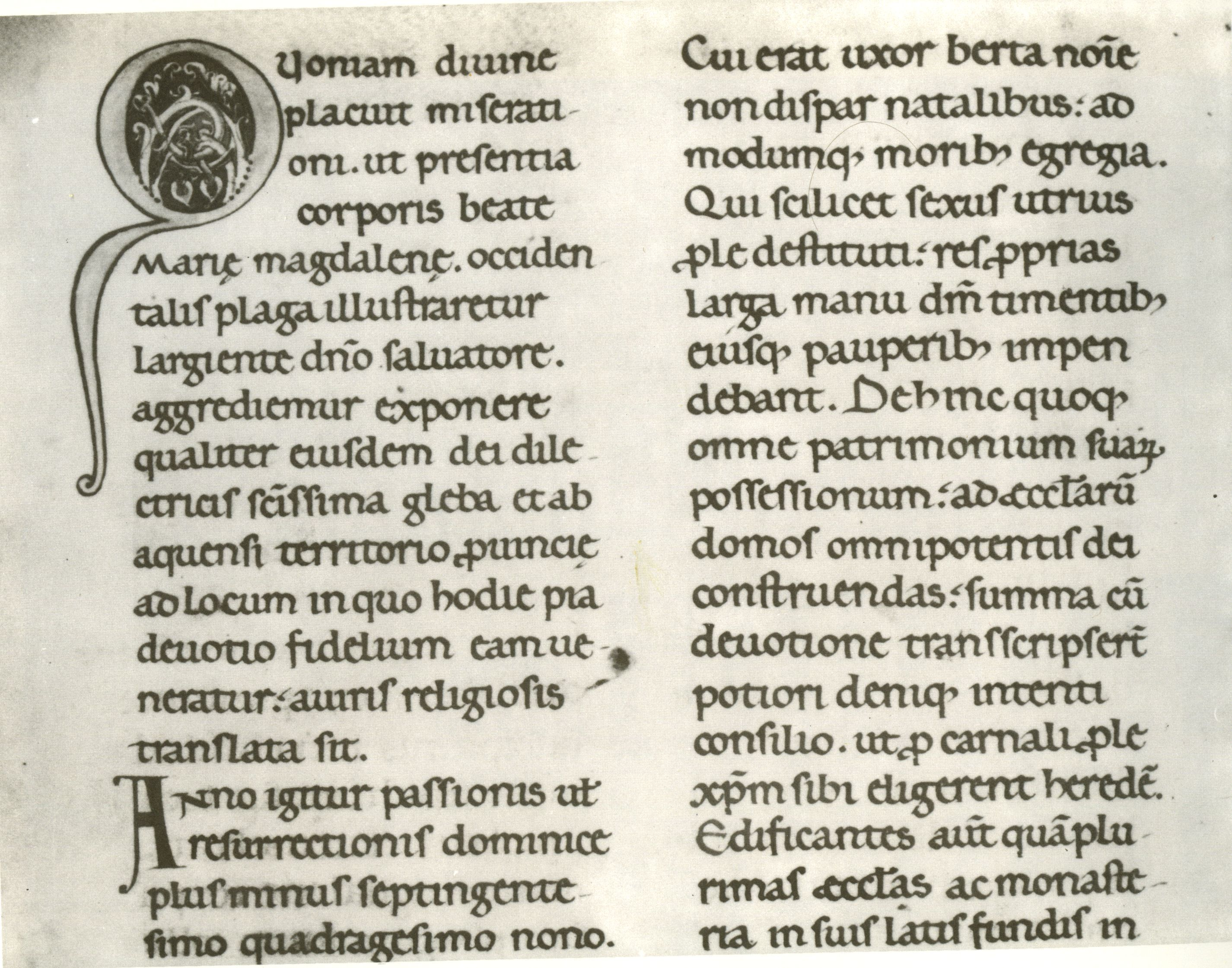 Early Pre-Rotunda in an Italian Passionary from Bologna. Manuscript Bologna, Universitätsbibliothek, Ms. 1473, fol. 35v.